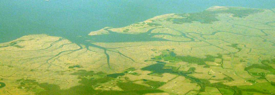 Oblique air photo of Woodland Beach Wildlife Area, Kent County, Delaware, April 2010, facing east. Contrast enhanced slightly.